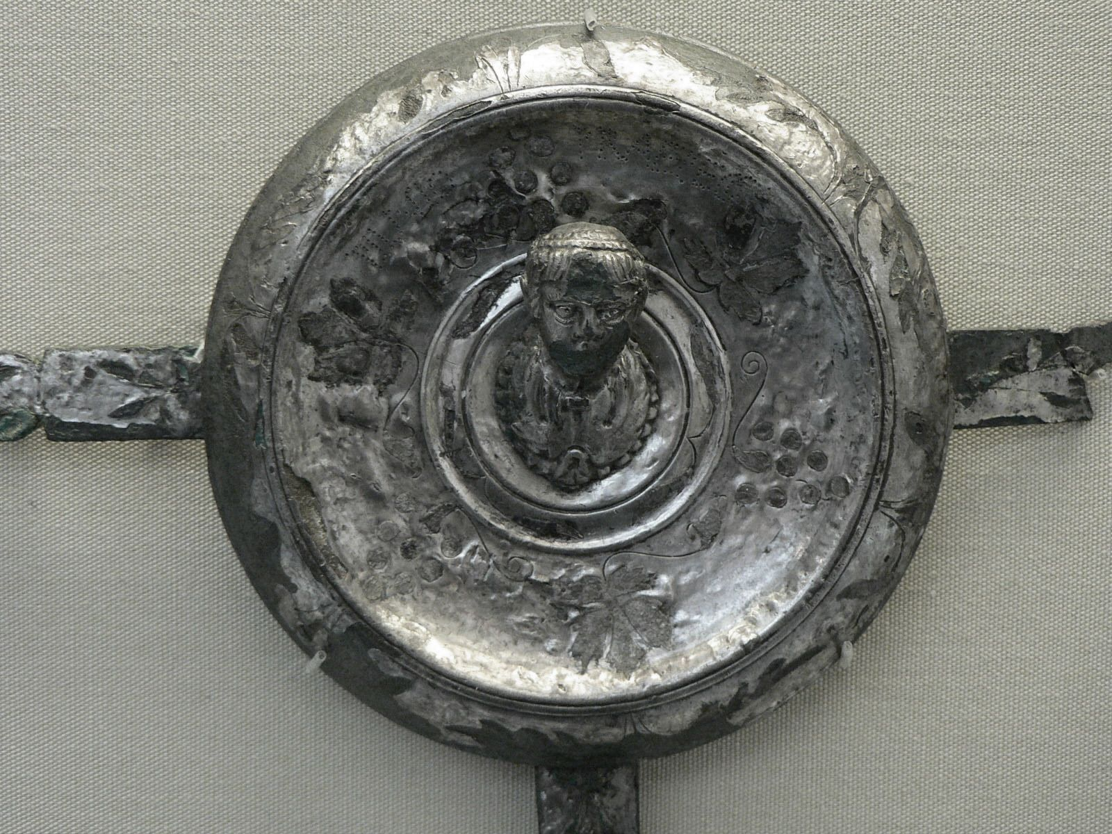 Pliny the Elder's inscribed phalera. From Castra Vetera (modern Xanten). Now exhibited in the British Museum.